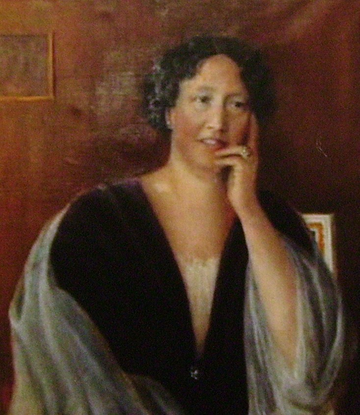 Picture of Sofia Callander-Nordvaeger, Swedish woman